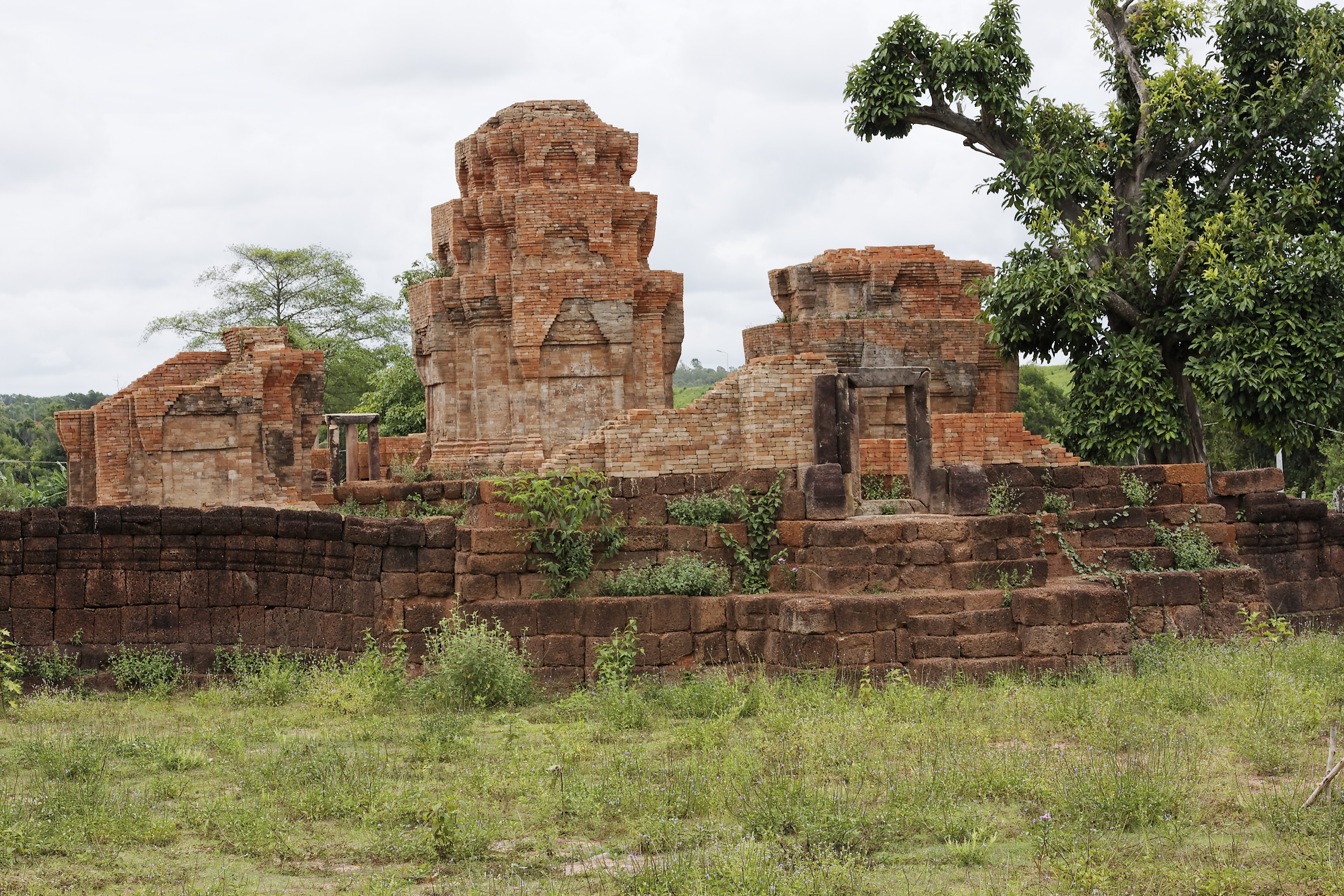 Prasat Hong Nong, Thailand